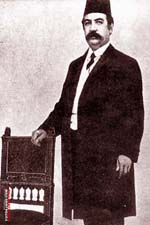 Damat Ferid Pasha